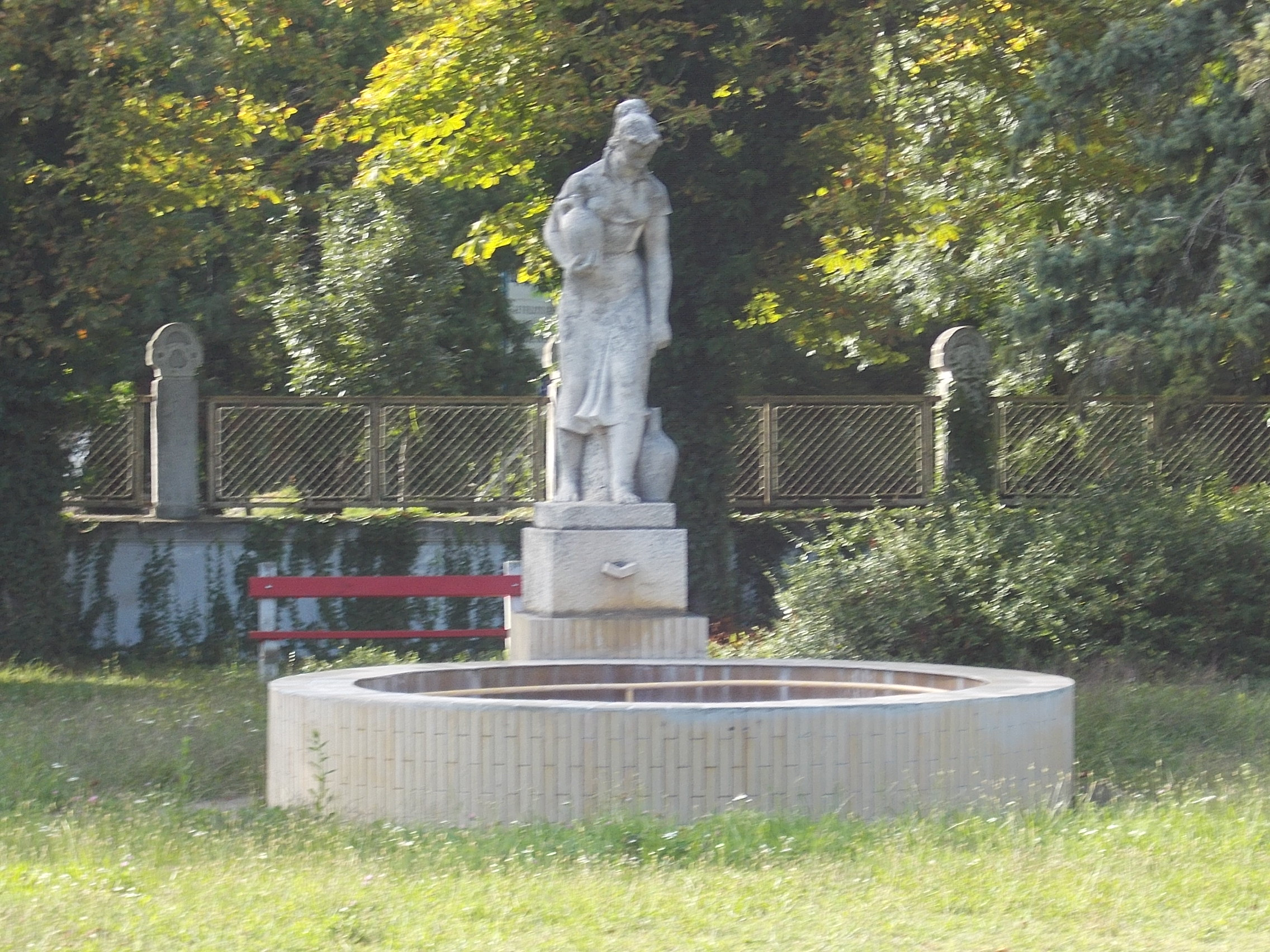 Woman with jugs by Walter Madarassy (1961). - Keszthely, Zala County, Hungary.